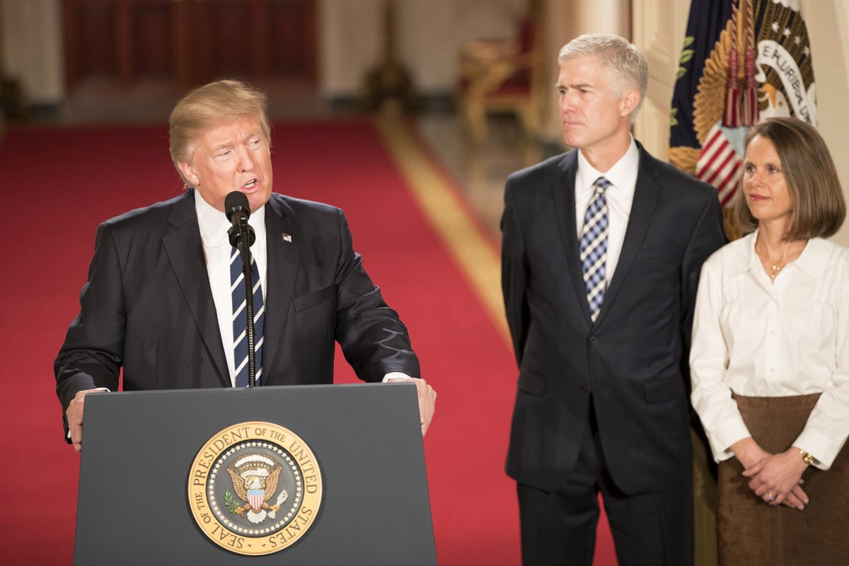 President Donald Trump with Supreme Court nominee Neil Gorsuch at the White House.